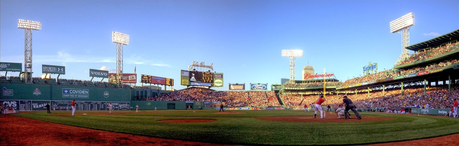 Fenway Park during a 2010 game vs. the Philadelphia Phillies.